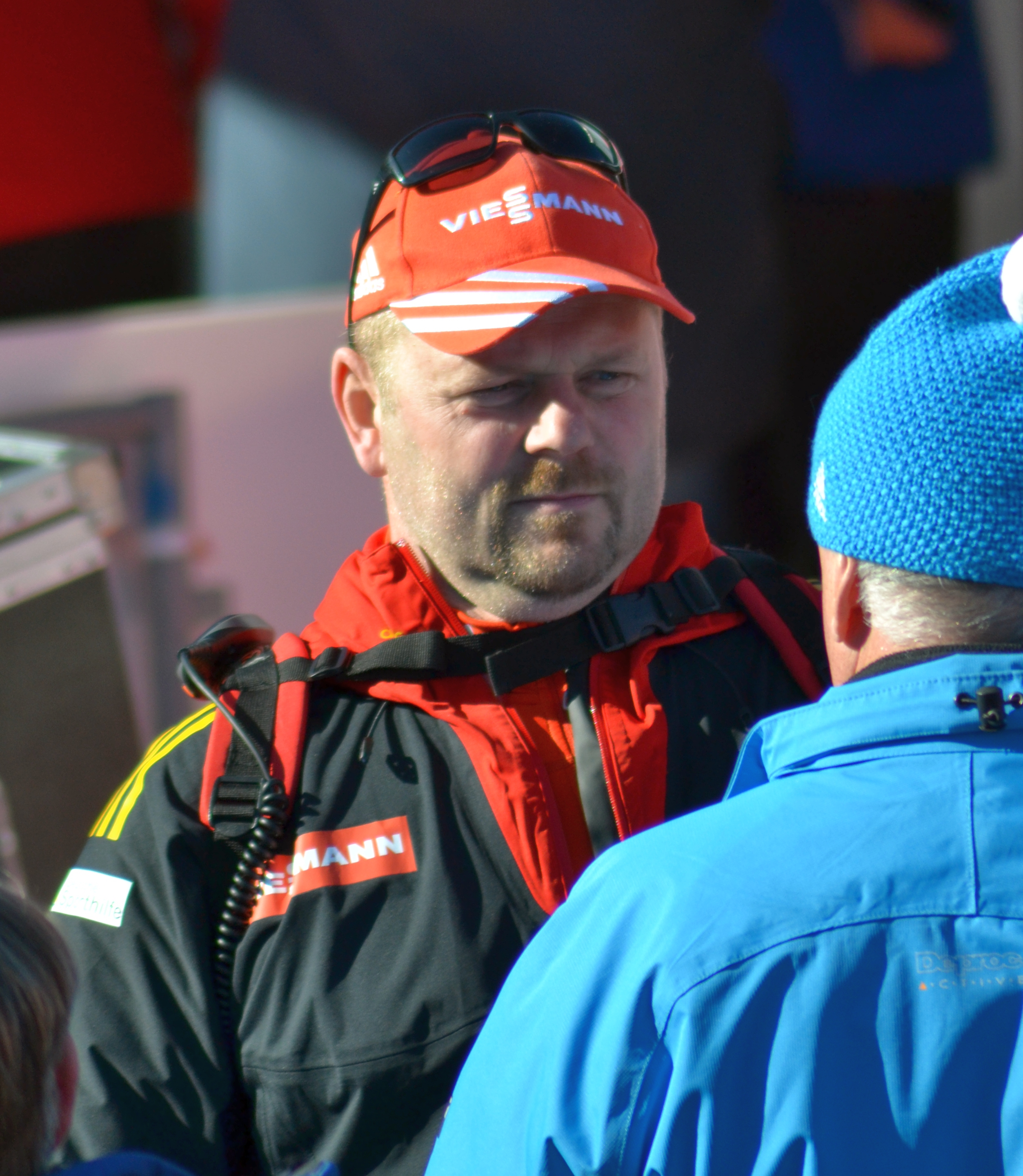 Luge world cup race season 2014/15 in Altenberg/Germany, 19th to 22nd Februar 2015. Day 2: Nations cup races.